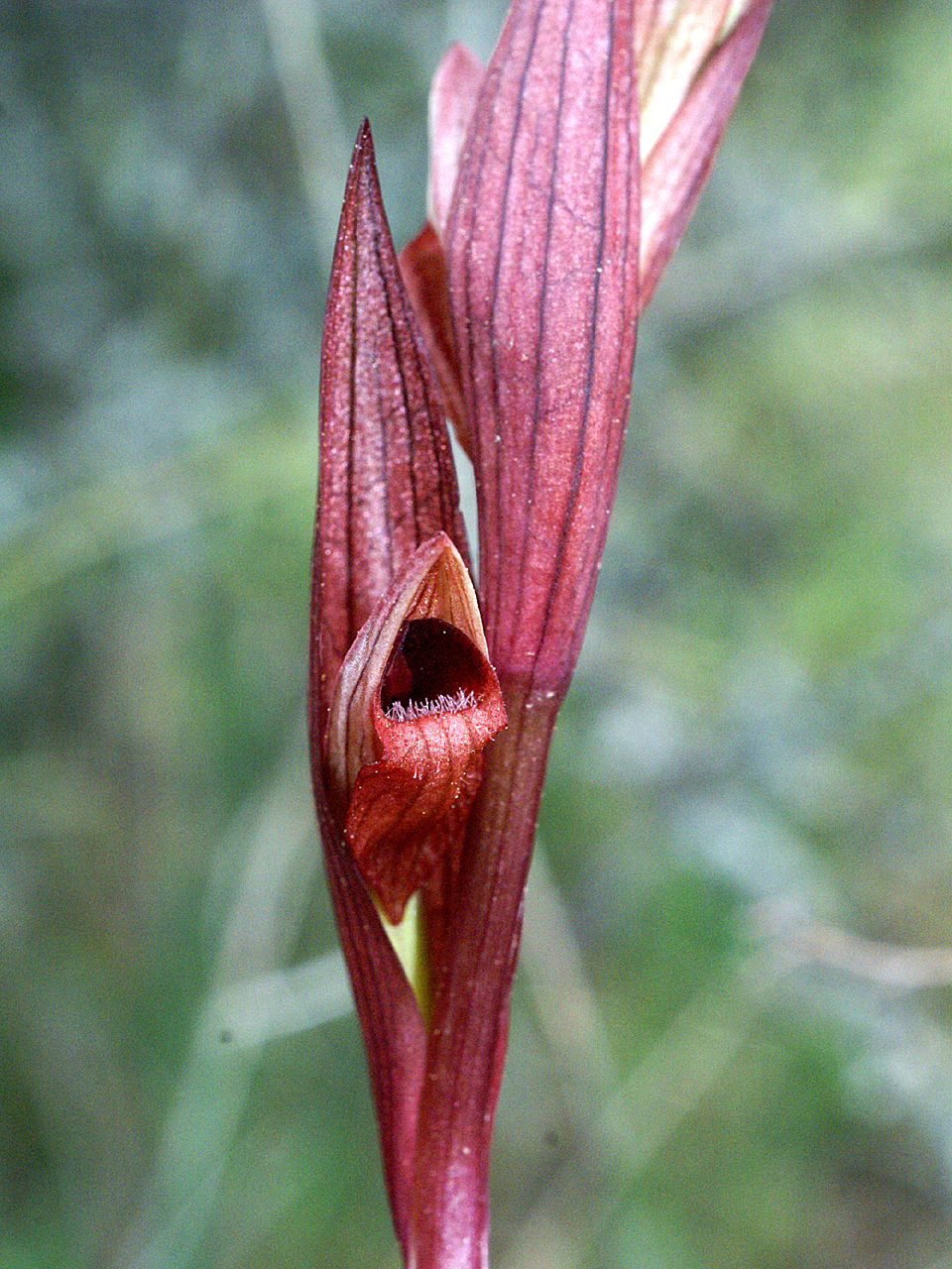 Serapias bergonii - flower